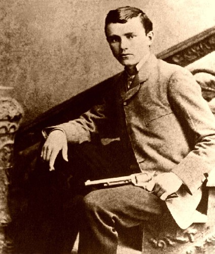 The outlaw Robert Ford, who lived from 1860 to 1892, in an undated photograph by an unknown author reportedly posing with the weapon he used to assassinate Jesse James. It is assumed the image is in the Public Domain in the United States as Ford died in 1892, meaning the image was made prior to 1923.